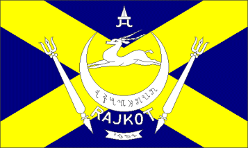 Flag of Rajkot Principality until 1948Flag status and standard of the Thakur sahib (Sovereign) dating back to a date not known and in until 1948. Scaling about 3/5. The dark blue cloth, through an unusual yellow cross of St. Andrew and centrally grand showed the emblem of the prince, without the colors. The moon, Chandra appeared together antelope, who rode when he was on earth. On sickle moon, written રંજે ધર્મી પ્રજા રાજા in Gujarati, which means "gifts from heaven to the people of regime". On both sides, two tridenti of Siva and the top Katar, a rajputa weapon, alludes to the sovereign.